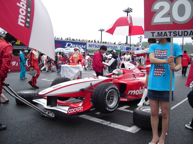 Tsugio Matsuda's Lola-Toyota on the grid before a Formula Nippon race at Twin Ring Motegi in 2006.